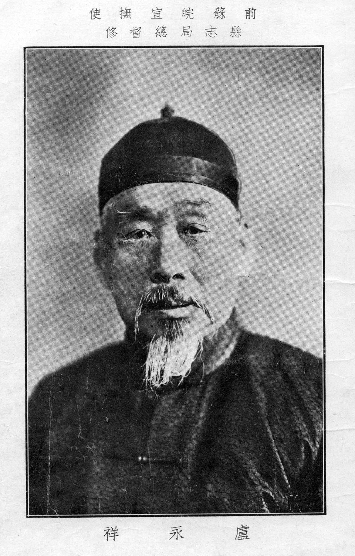 Lu Yongxiang (1867－1933)